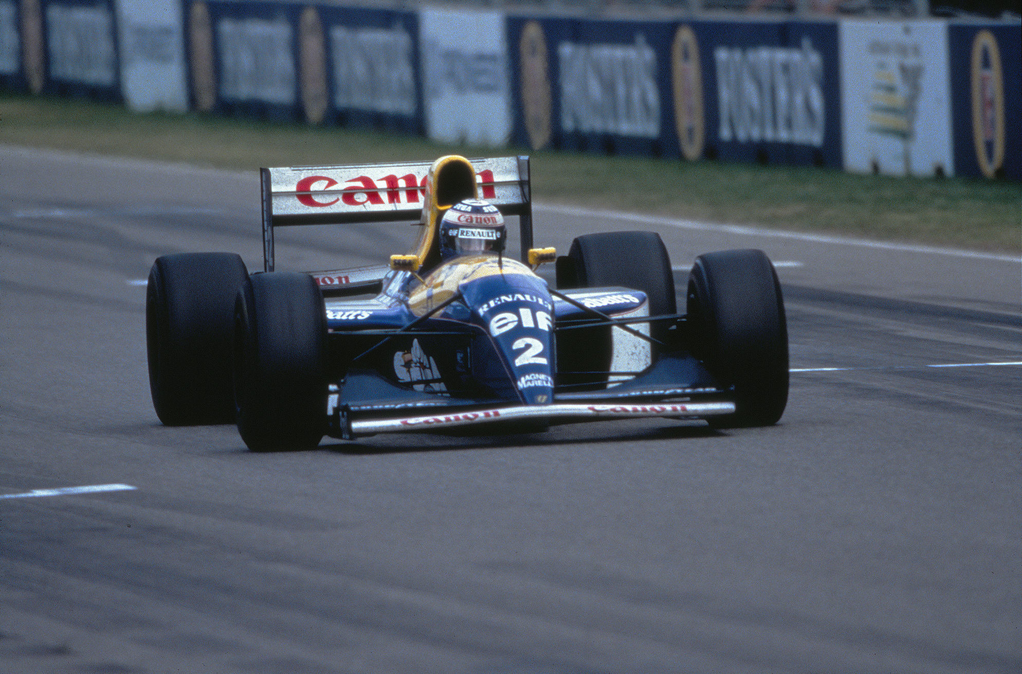 Alain Prost during his last race of his carreer in Adelaide on 7 November 1993.